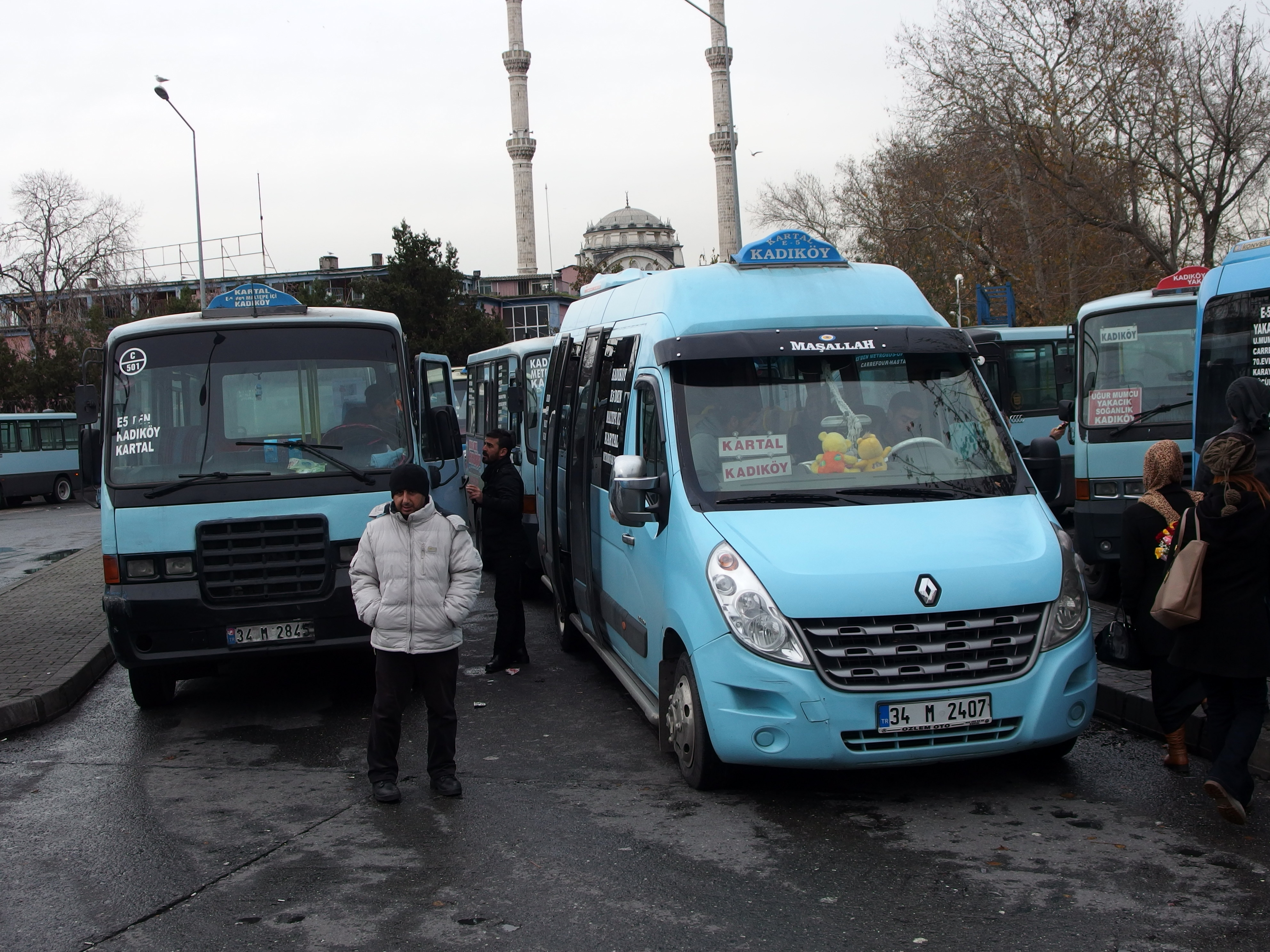 2013-02-07 in Istanbul.